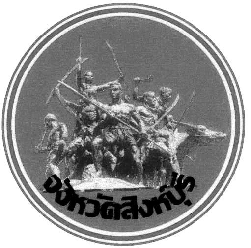 Seal of Sing Buri Province of Thailand in accordance to the announcement for official seals of Thai province, print in the Royal Thai Government Gazette in 2004.